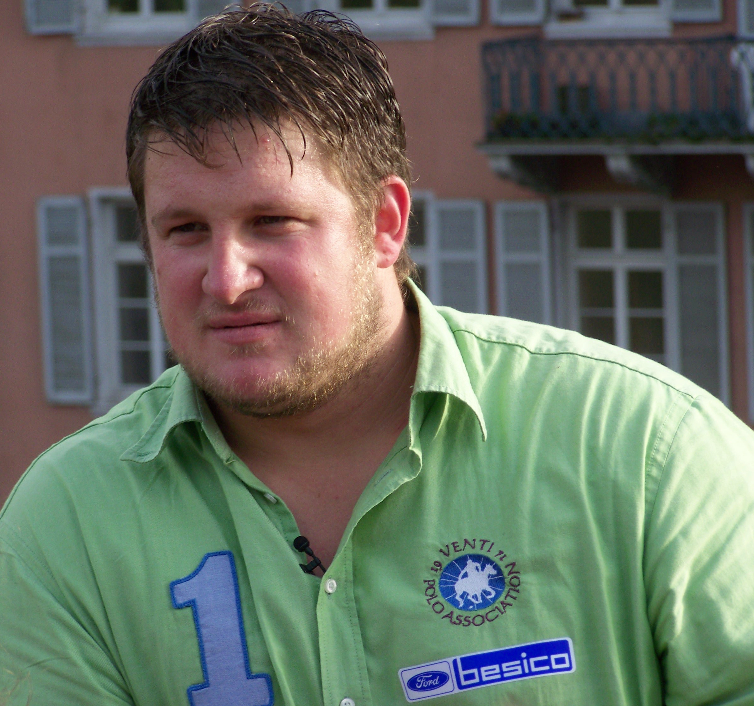 Matthias Steiner (Weightlifter)